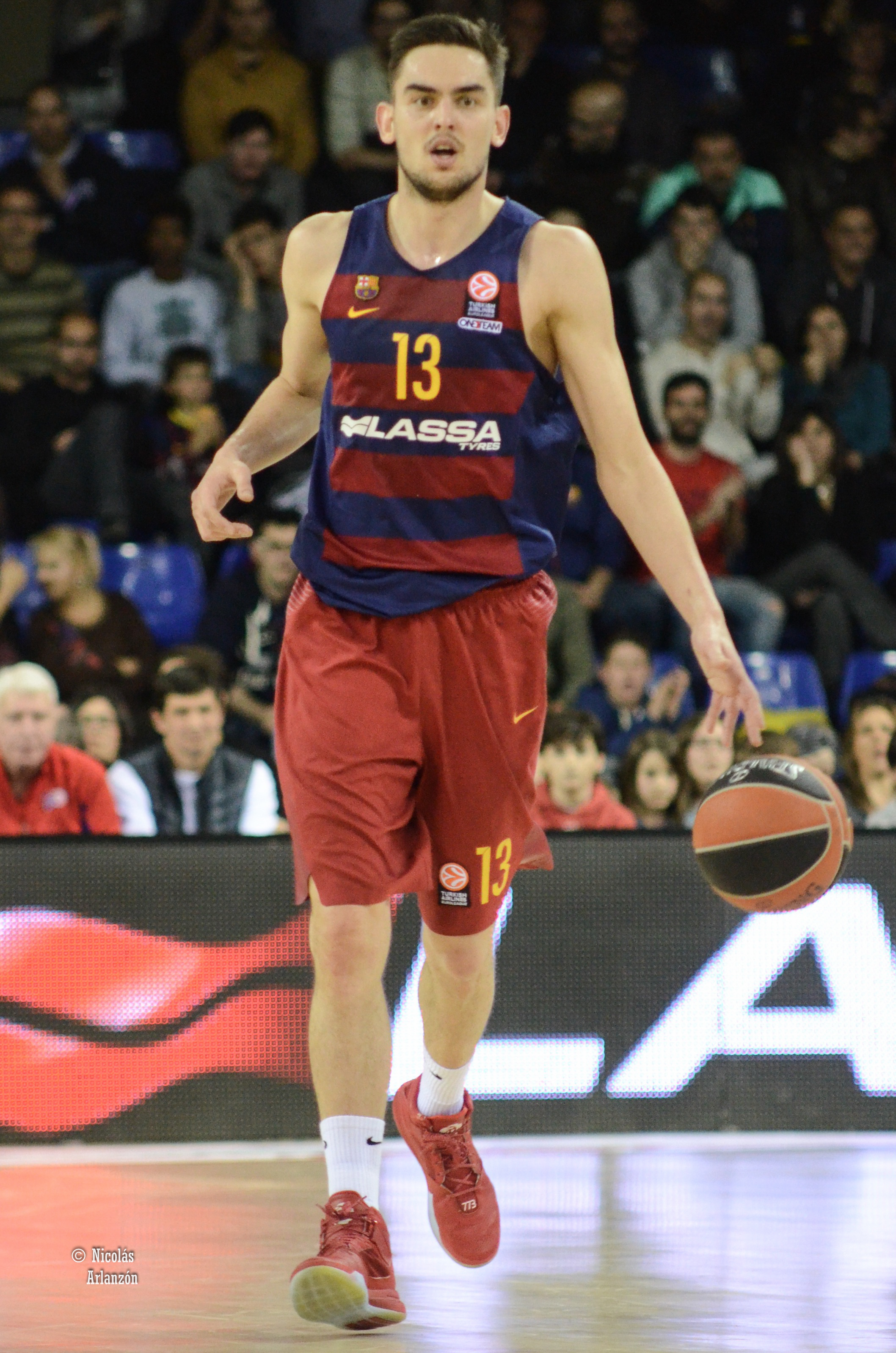 Tomáš Satoranský playing for Barcelona in an Euroleague match against CSKA Moscow on 12 March 2016